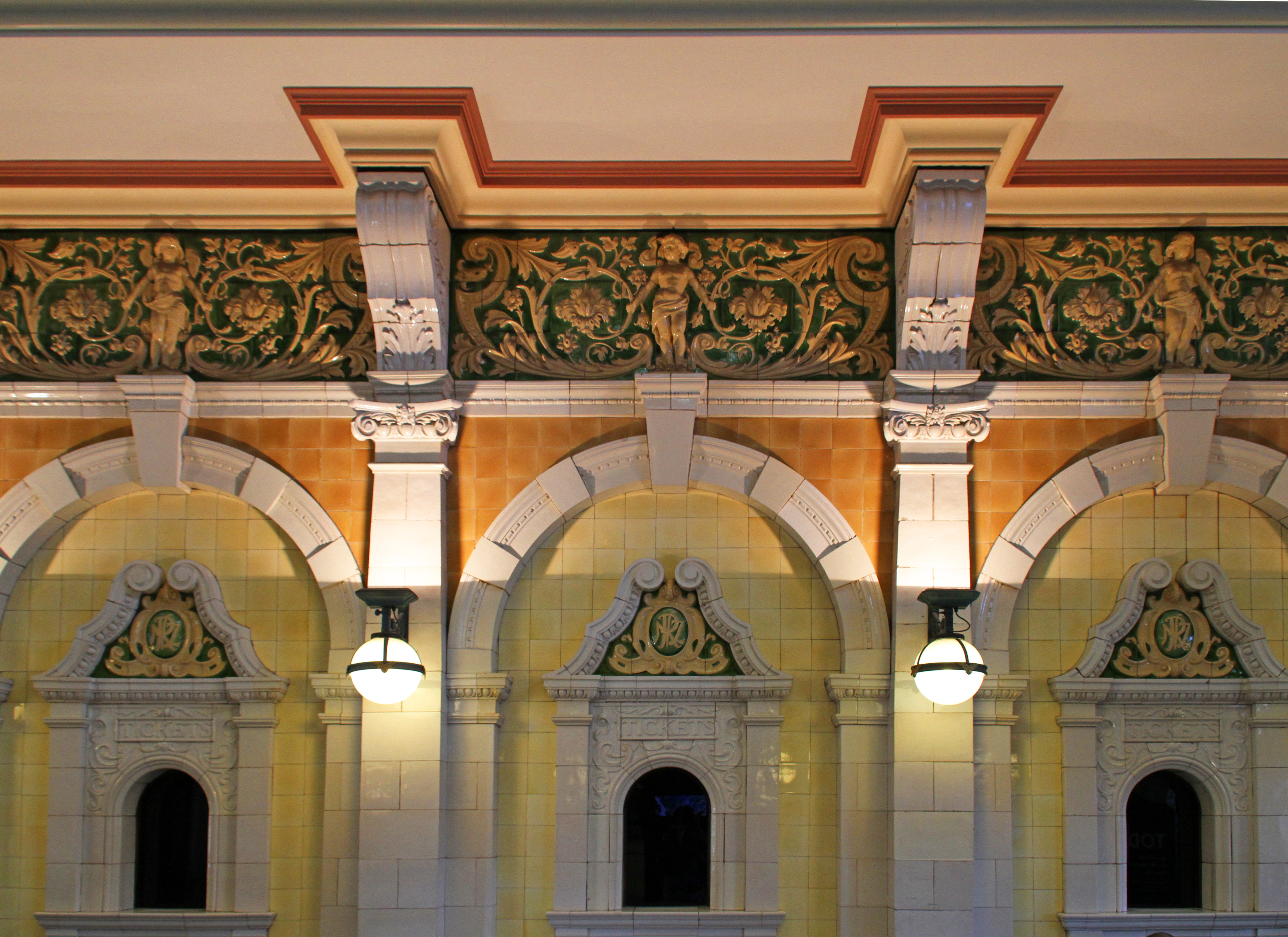 Inside Dunedin Railway Station 3